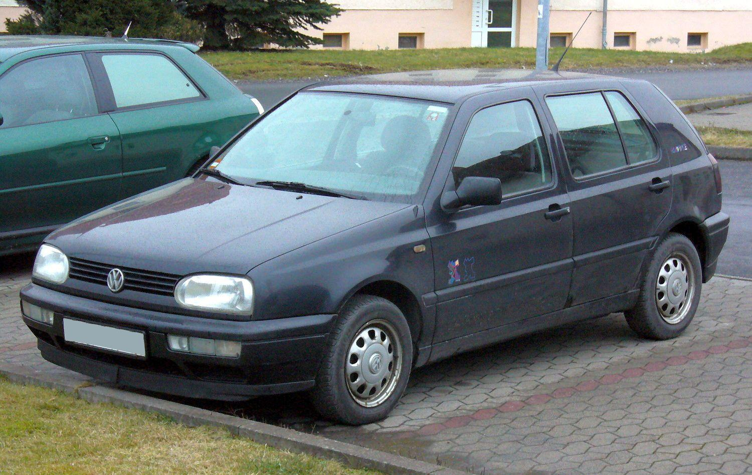 VW Golf III